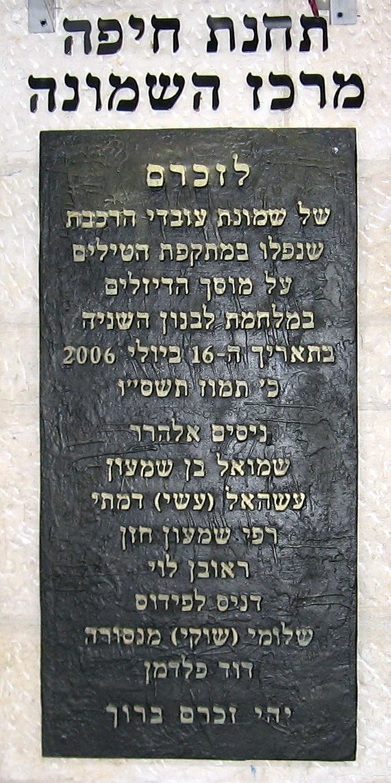 A plaque at Haifa Center HaShmona Railway Station in Israel, reading: "In memory of eight railway workers who were killed during a rocket attack on the diesel shop during the Second Lebanon War on July 16th 2006, 20th Tammuz 5766..."